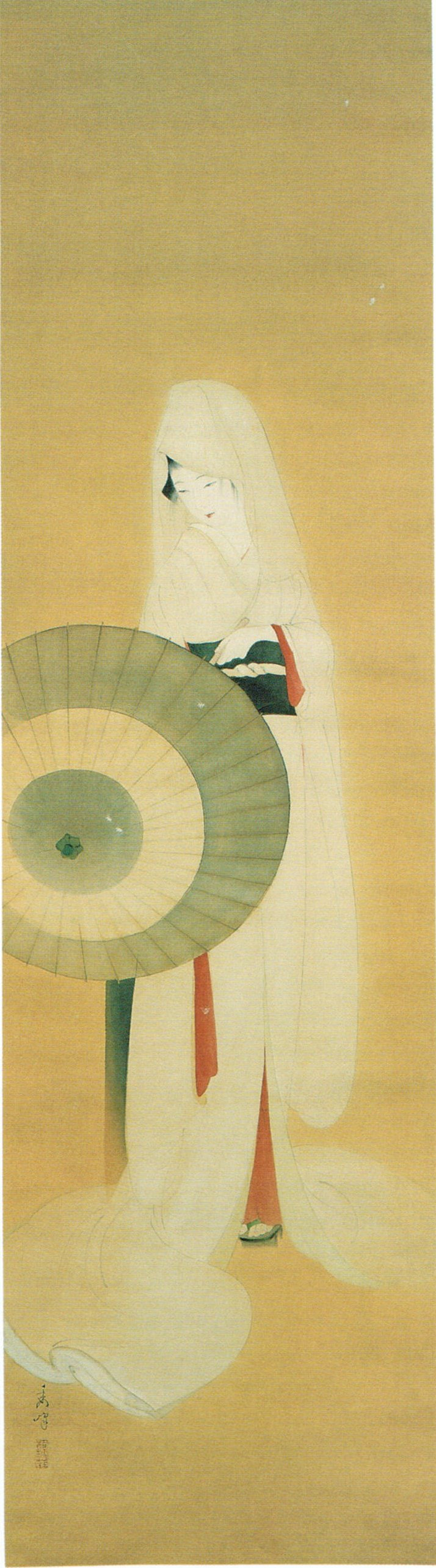 Heron Maiden (Sagi musume) by Yamakawa Shūhō (1898-1944), painting on silk, c. 1925, Honolulu Museum of Art accession 7551.1